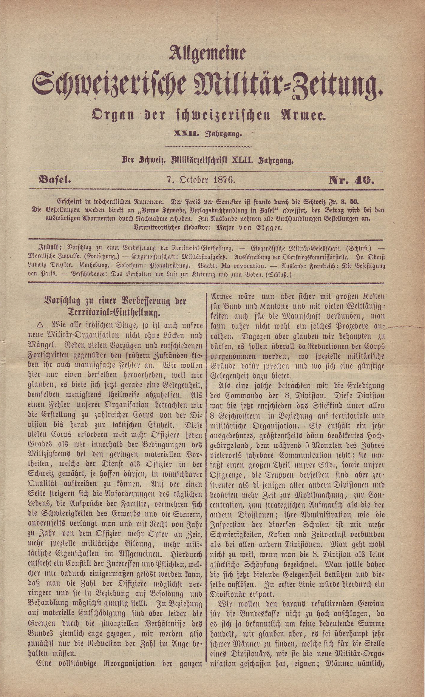 Cover of the Swiss military magazine